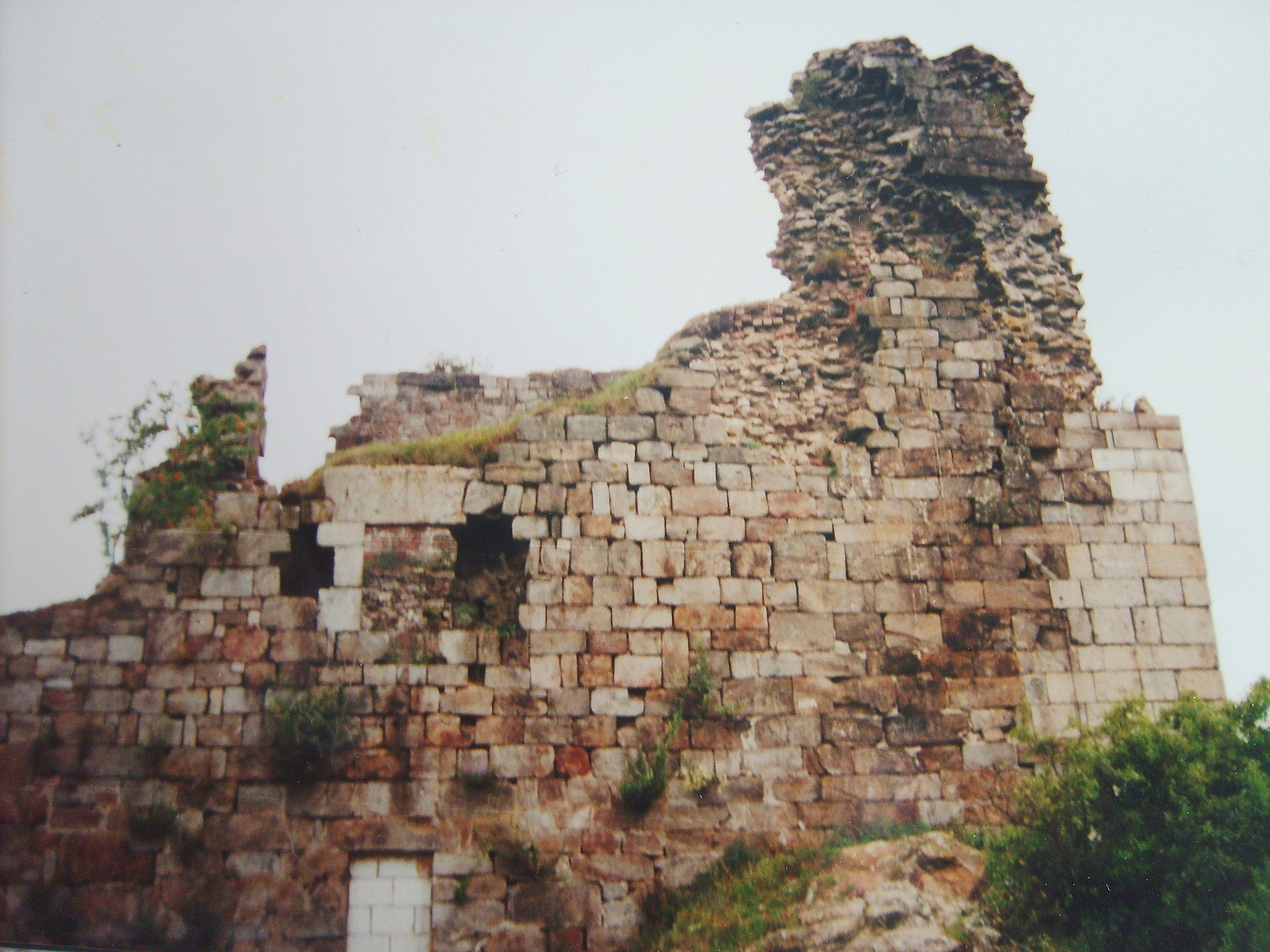 Castle of Přimda, West Bohemia. Česky: Hrad Přimda na kopci nad stejnojmenným městem, okr. Tachov.